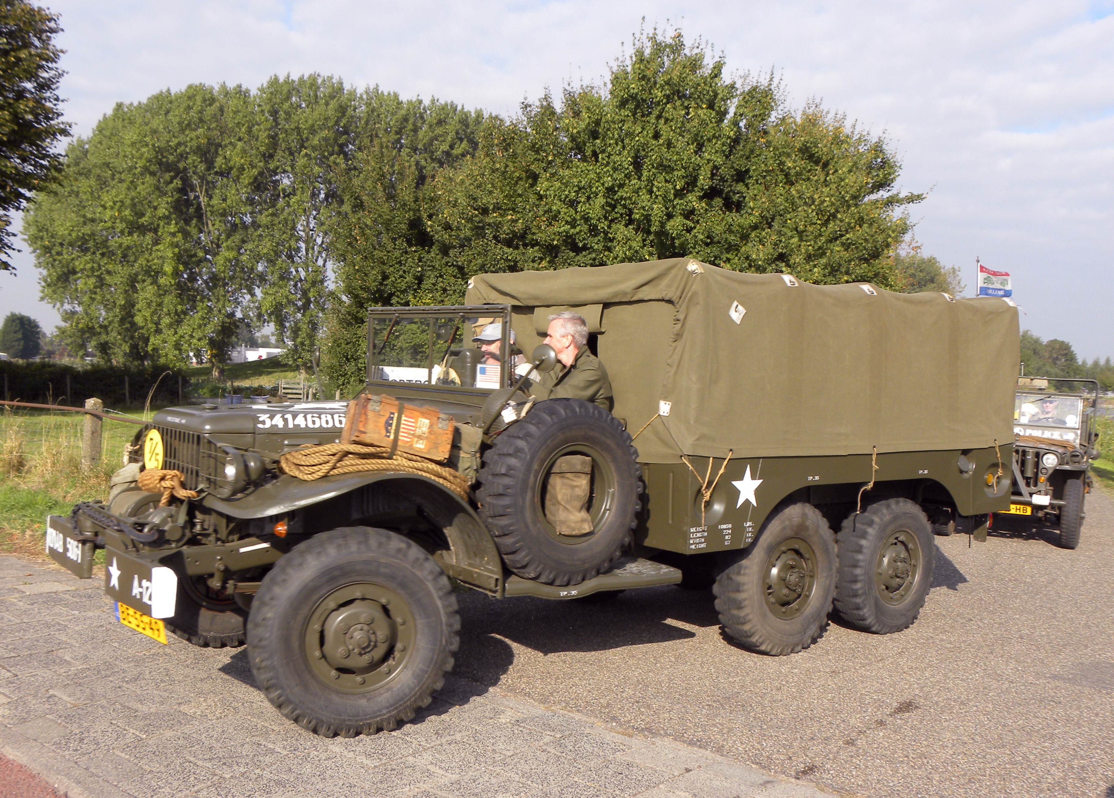 seen at crash 40-45 museum, red ball express event